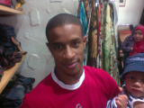 Footballer Langlet Yoann. I Did take this photo in tripoli-libya by my Sony ericsson k510i mobile.